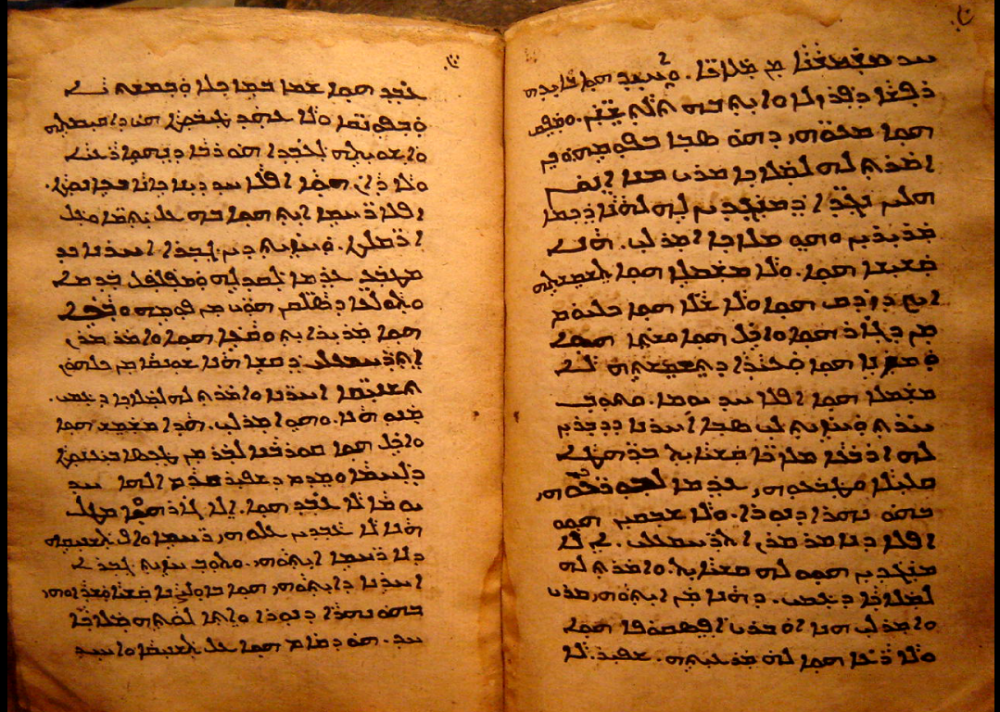 Syrian manuscript of Apocalypse of Paul